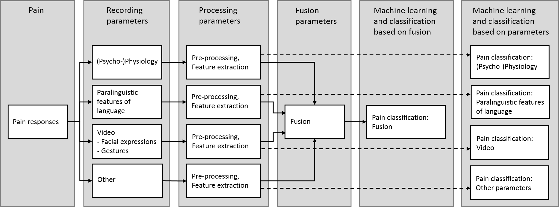 Simplified automated pain recognition process. Left to right: Recording parameters of pain responses, (optional) fusion of modalities, pain classification based on fusion, pain classification based on parameters.